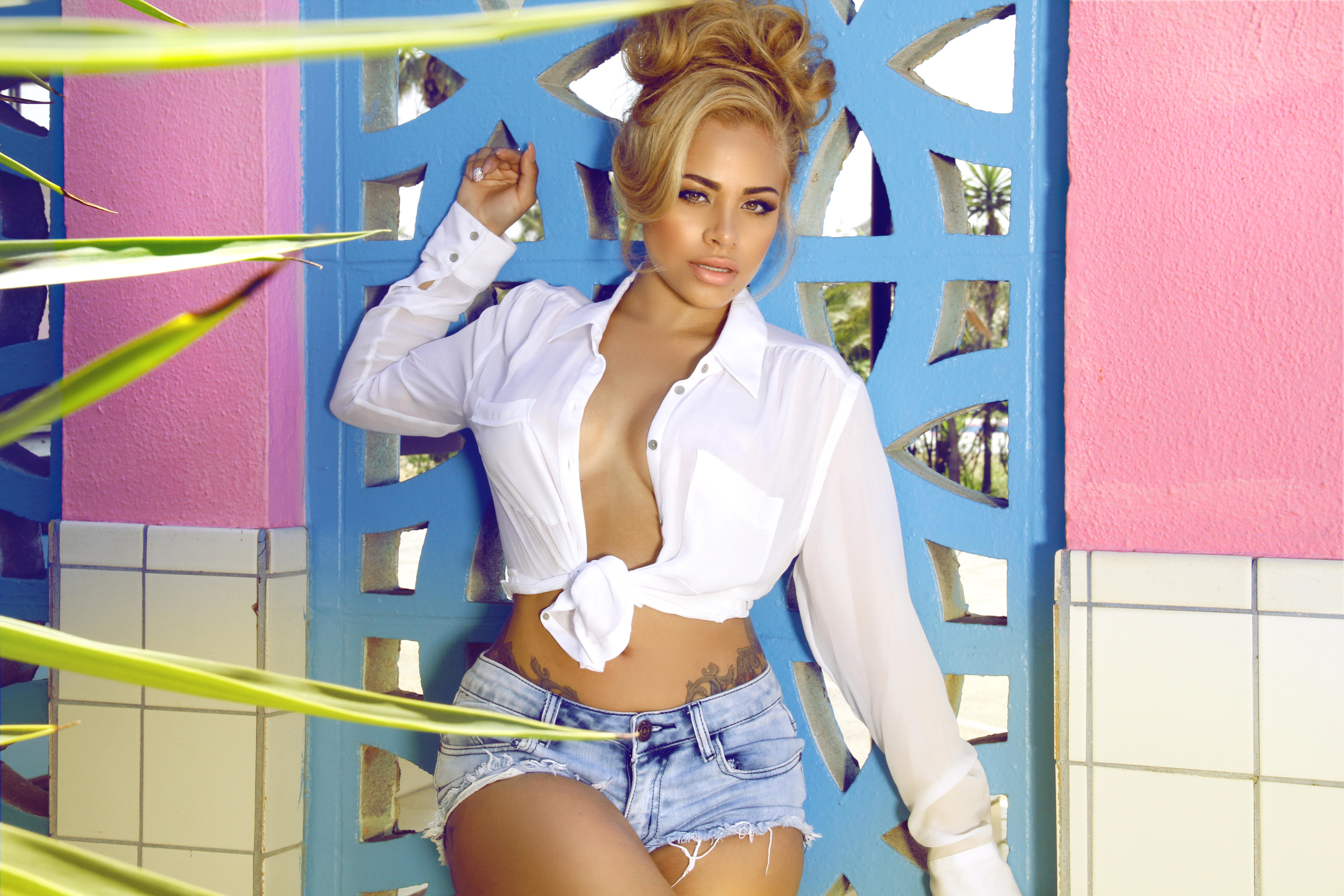 In-studio photo of pop singer and songwriter, Charisse Mills